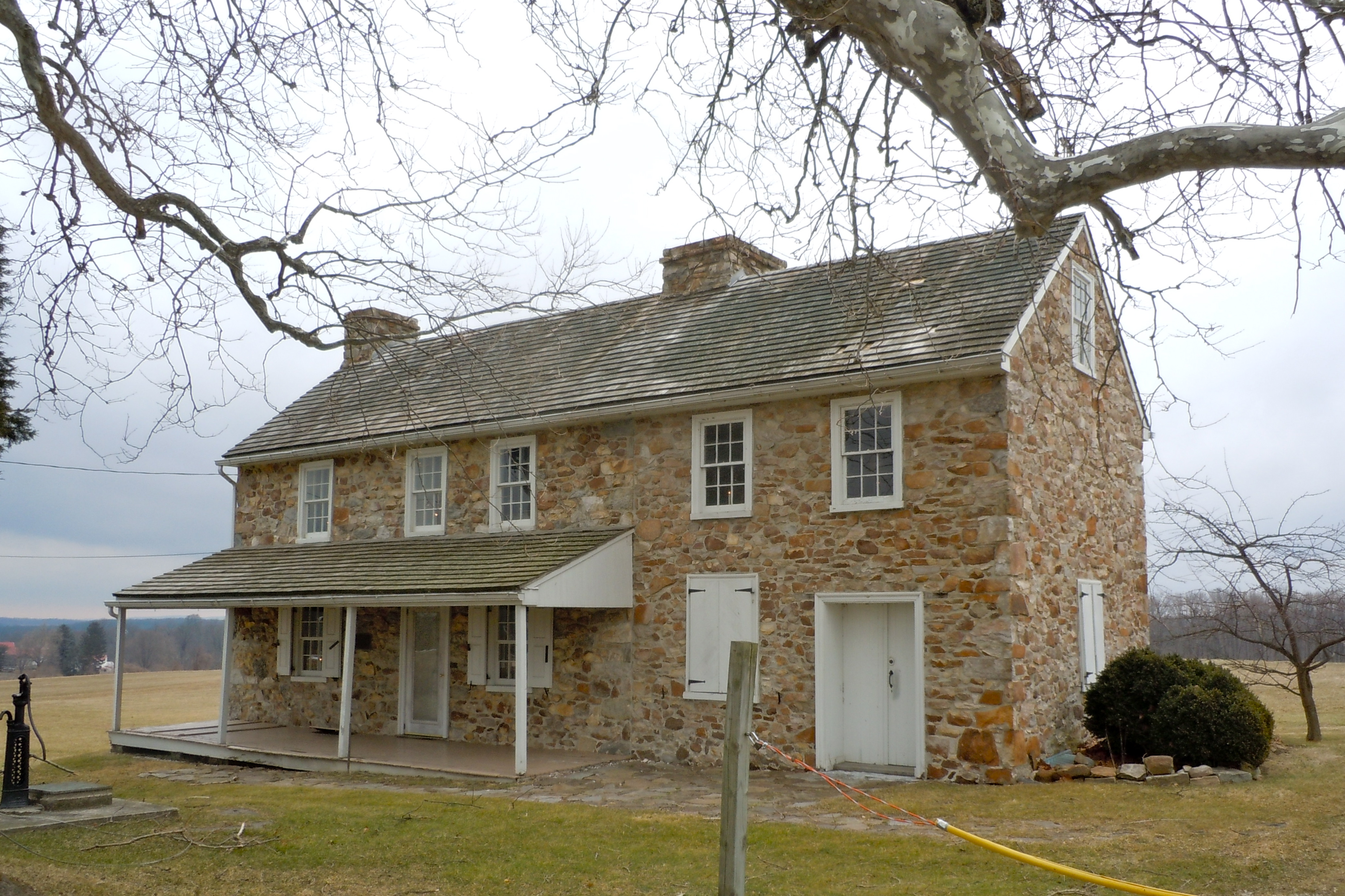 Jacob Wisner House on the NRHP since August 6, 1979. Northwest of Malvern, Pennsylvania on Yellow Springs Road, in Charlestown Township, Chester County, PA.